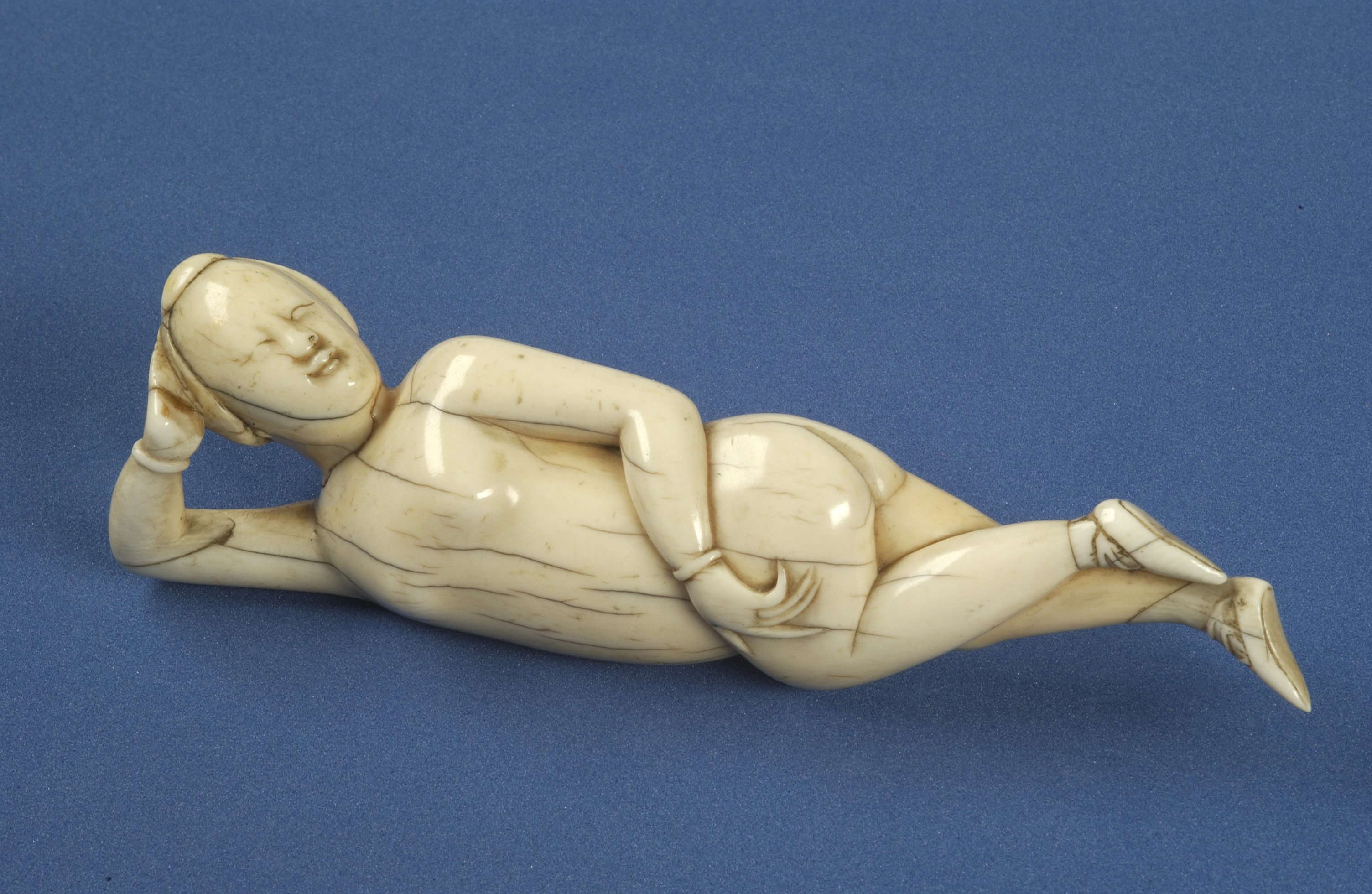 Chinese ivory diagnostic doll used by female patients to indicate where their symptoms were. Wellcome Images Keywords: Chinese Medicine; Chinese; Asian Continental Ancestry Group; Nude; China; Female